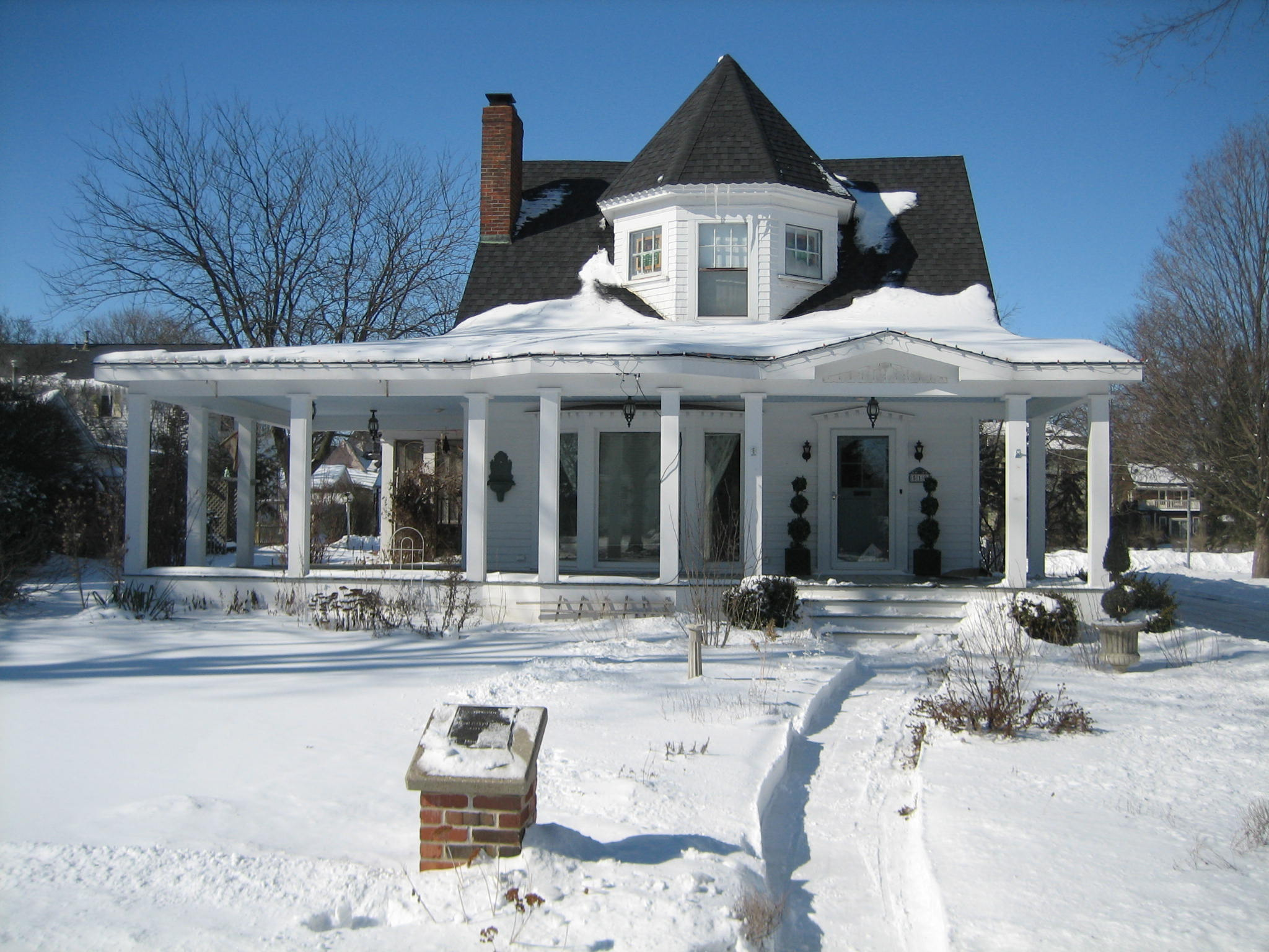 519 S Main St., John Gathercoal House, Sycamore, Illinois. Sycamore Historic District, National Register of Historic Places.